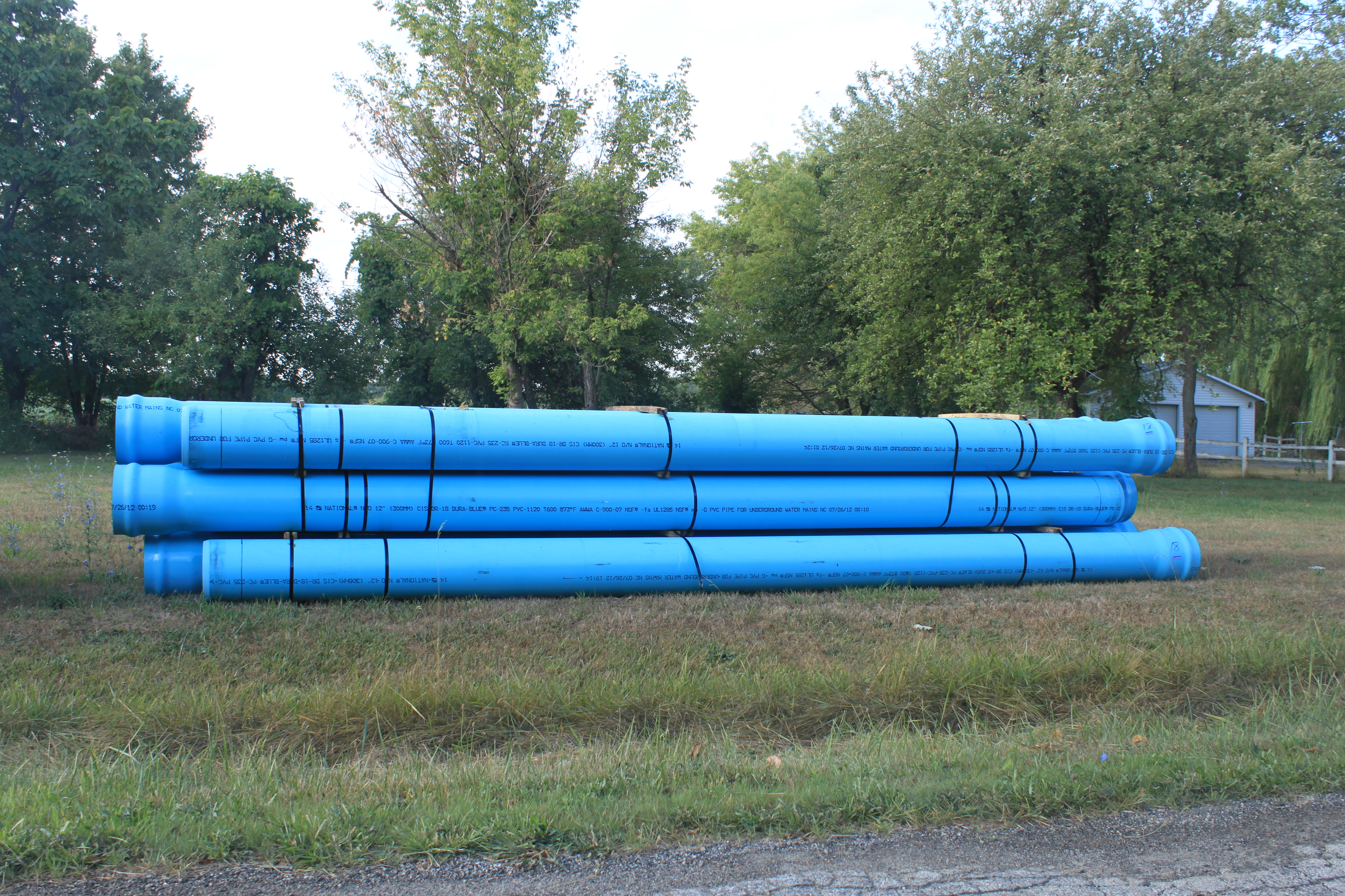 Dura-Blue PVC pipe for underground water mains, Colf Road, Carleton, Michigan.